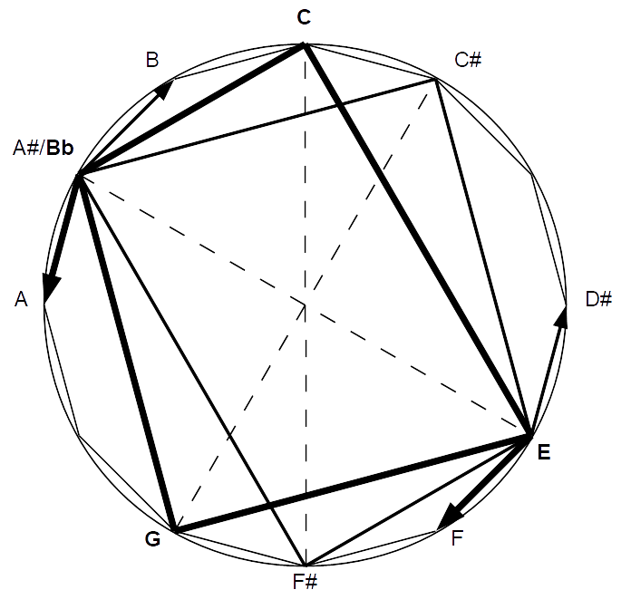 Substitute dominant seventh in the chromatic circle: C and F♯. Two axes of symmetry. The leading tones resolve inversionally (E-B♭ resolves to F-A, A♯-E resolves to B-D♯).